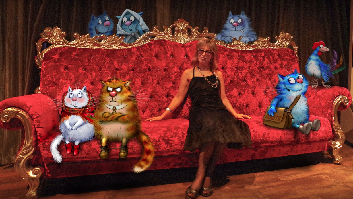 Example of photoshop illustration weaved into photographic images